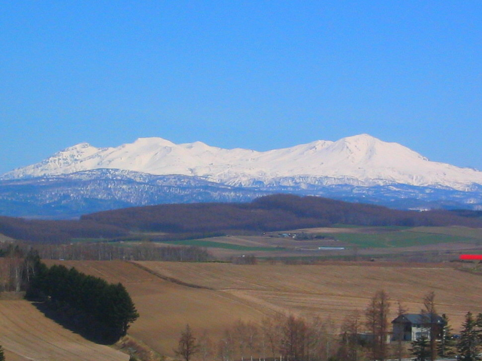 Mount Daisetsu seen from the west in Hokkaido, Japan.